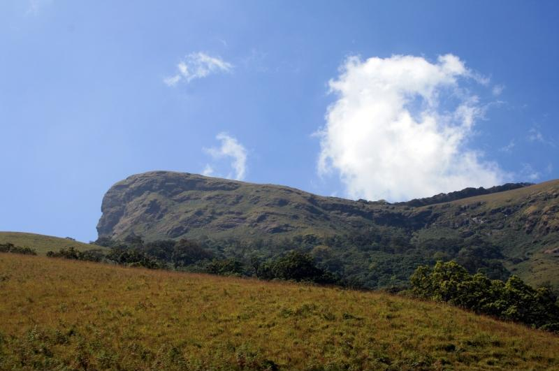 Viewing the Kudremukh peak from a closer distance reveals the reason for its unique name. The peak does resemble the face of a horse facing up towards the sky. This picture is from my trekking trip to Kudremukh trip on 26 Dec 2008.